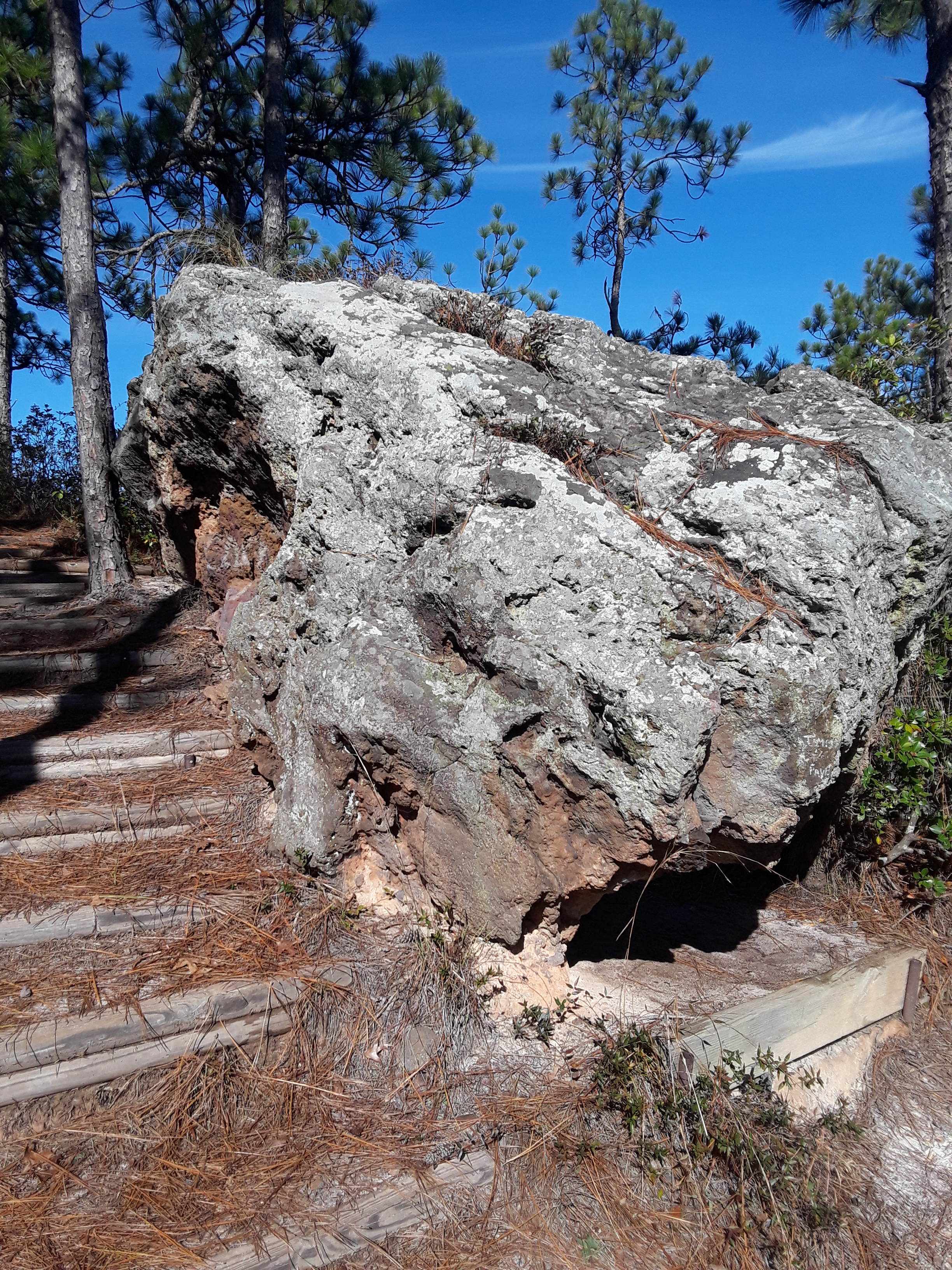 Lava Rock on the way up